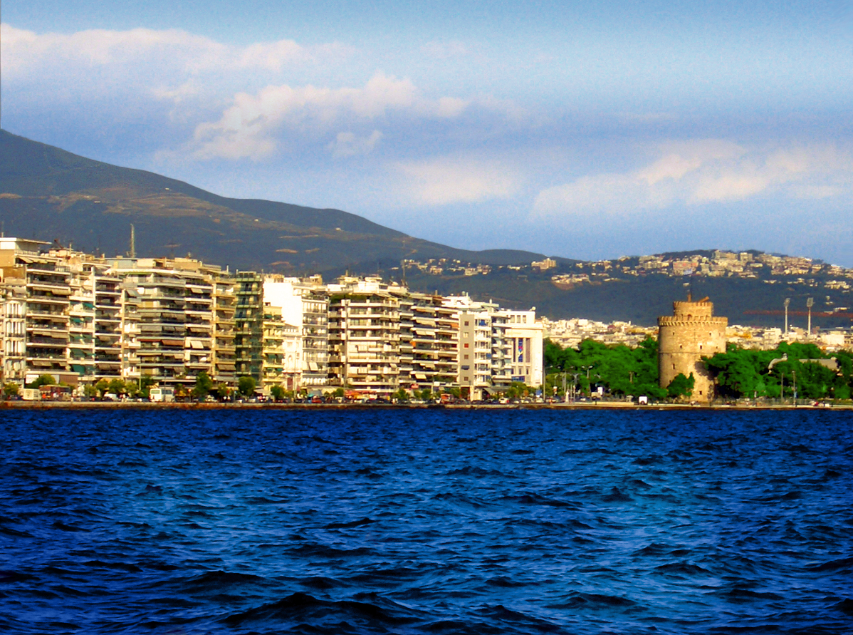 Thessaloniki View of waterfront